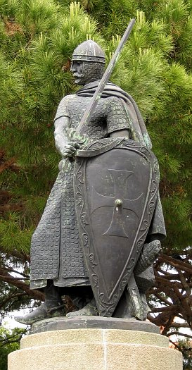 Statue of King Afonso Henriques, Lisbon, Portugal.